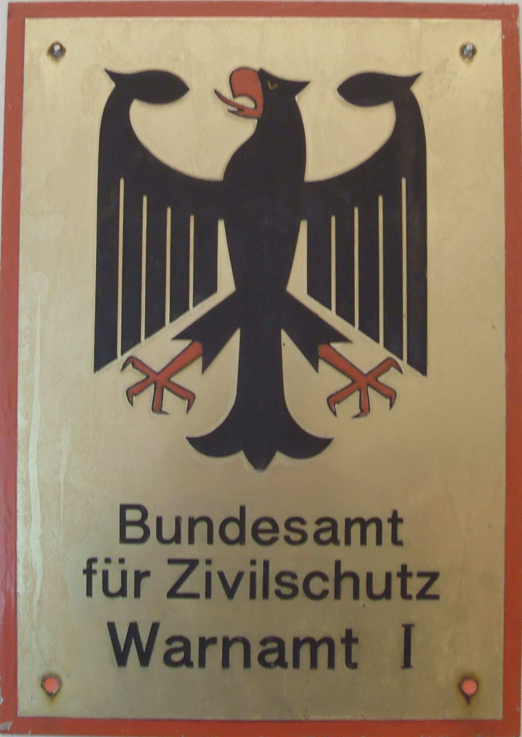 Plat at the entry of Warnamt1